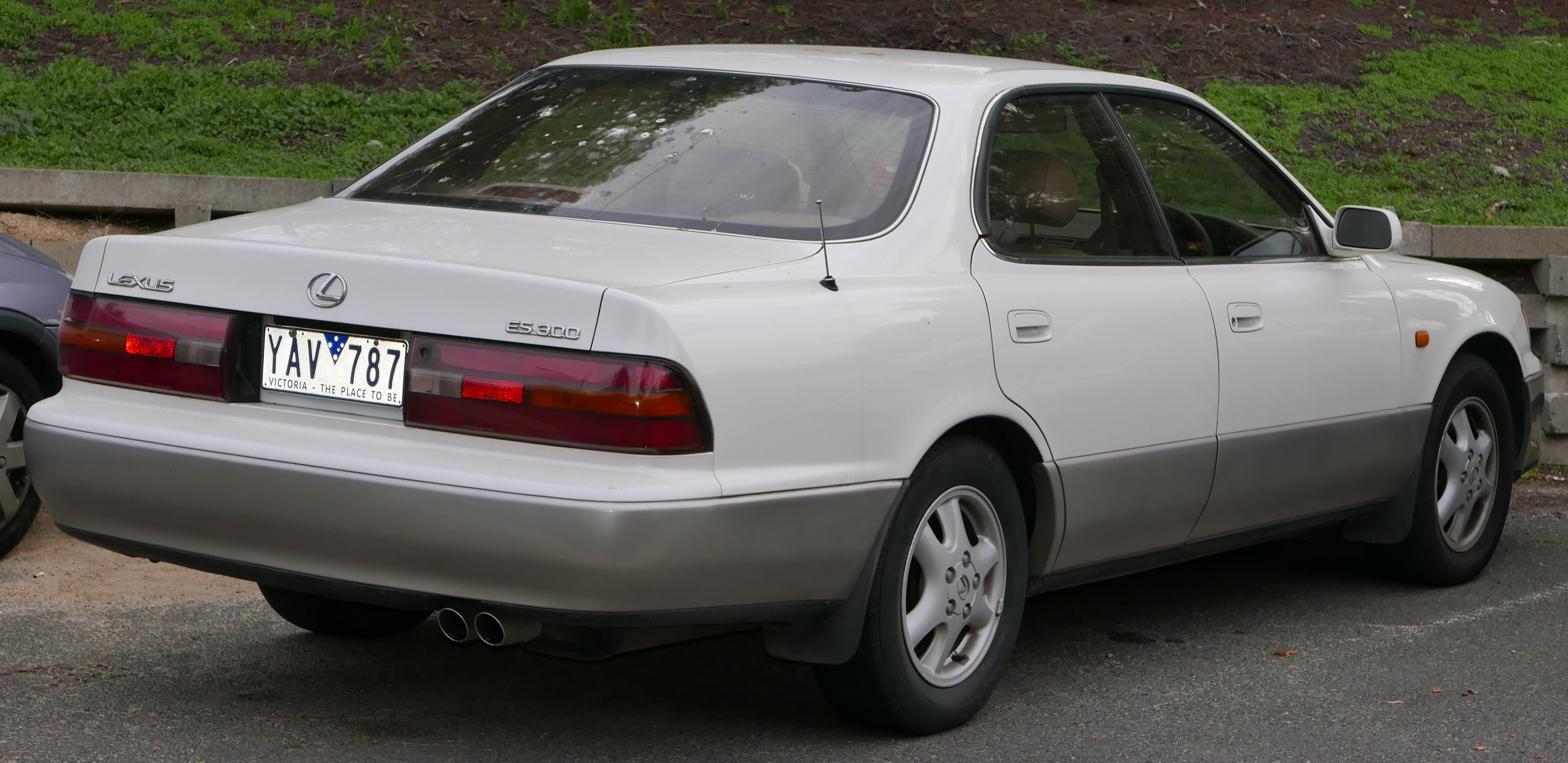 1993 Lexus ES 300 (VCV10R) sedan. Photographed in Northcote, Victoria, Australia. Vehicle registration enquiry results Jurisdiction Victoria Registration YAV787 Chassis code JT762VV1000233798 Engine code 3VZ1361386 Compliance date 1993-09 Year of manufacture 1993